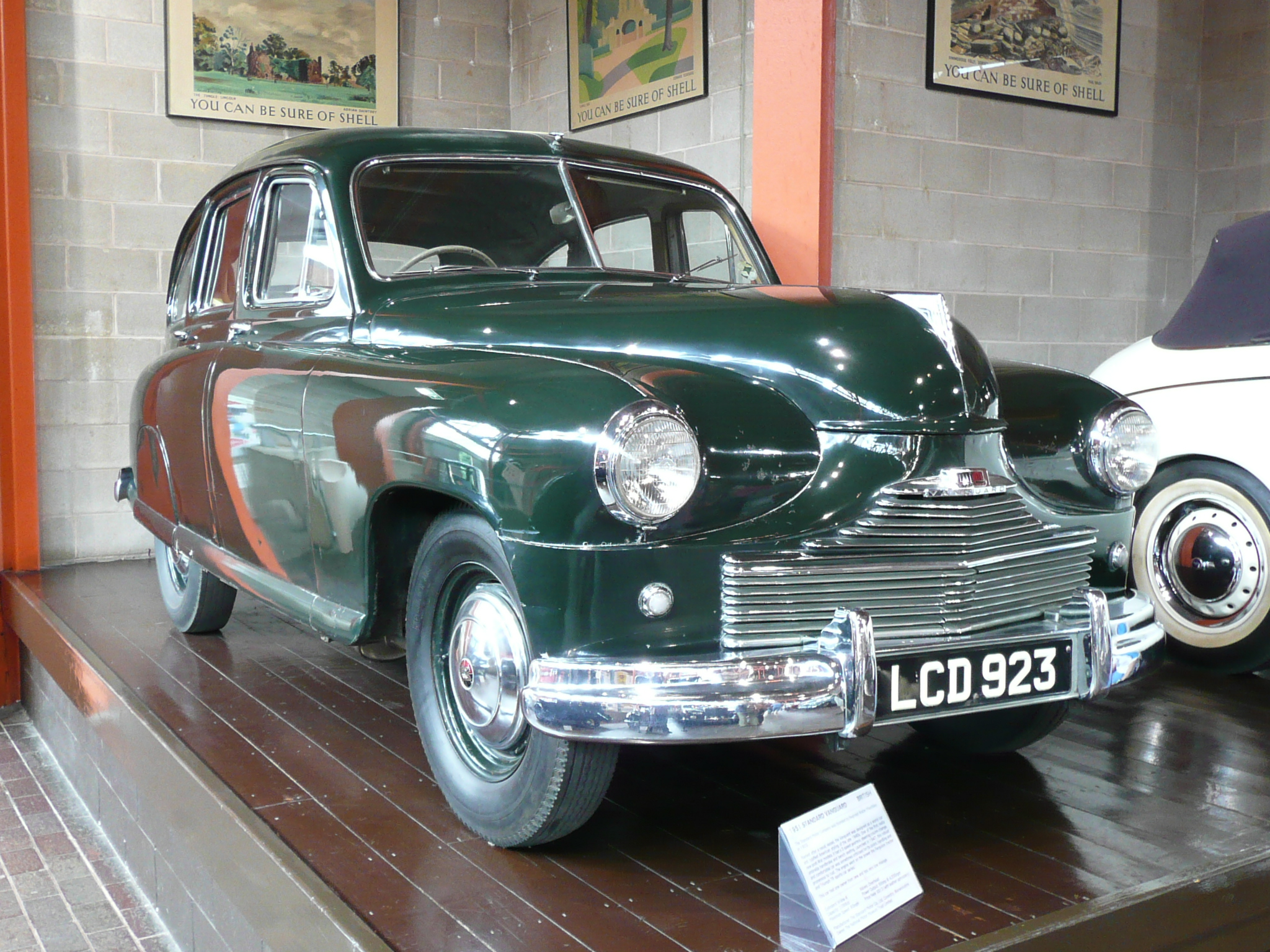 1951 Standard Vanguard, National Motor Museum in Beaulieu.